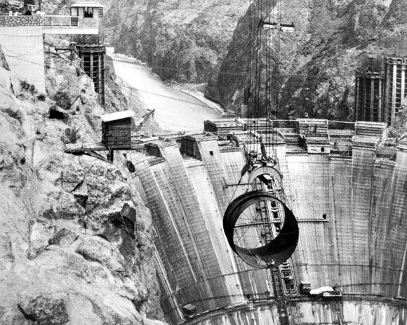 Source: Hoover Online Digital Archives Description: Crane picking up section of pipe, 1934 License: Public domain